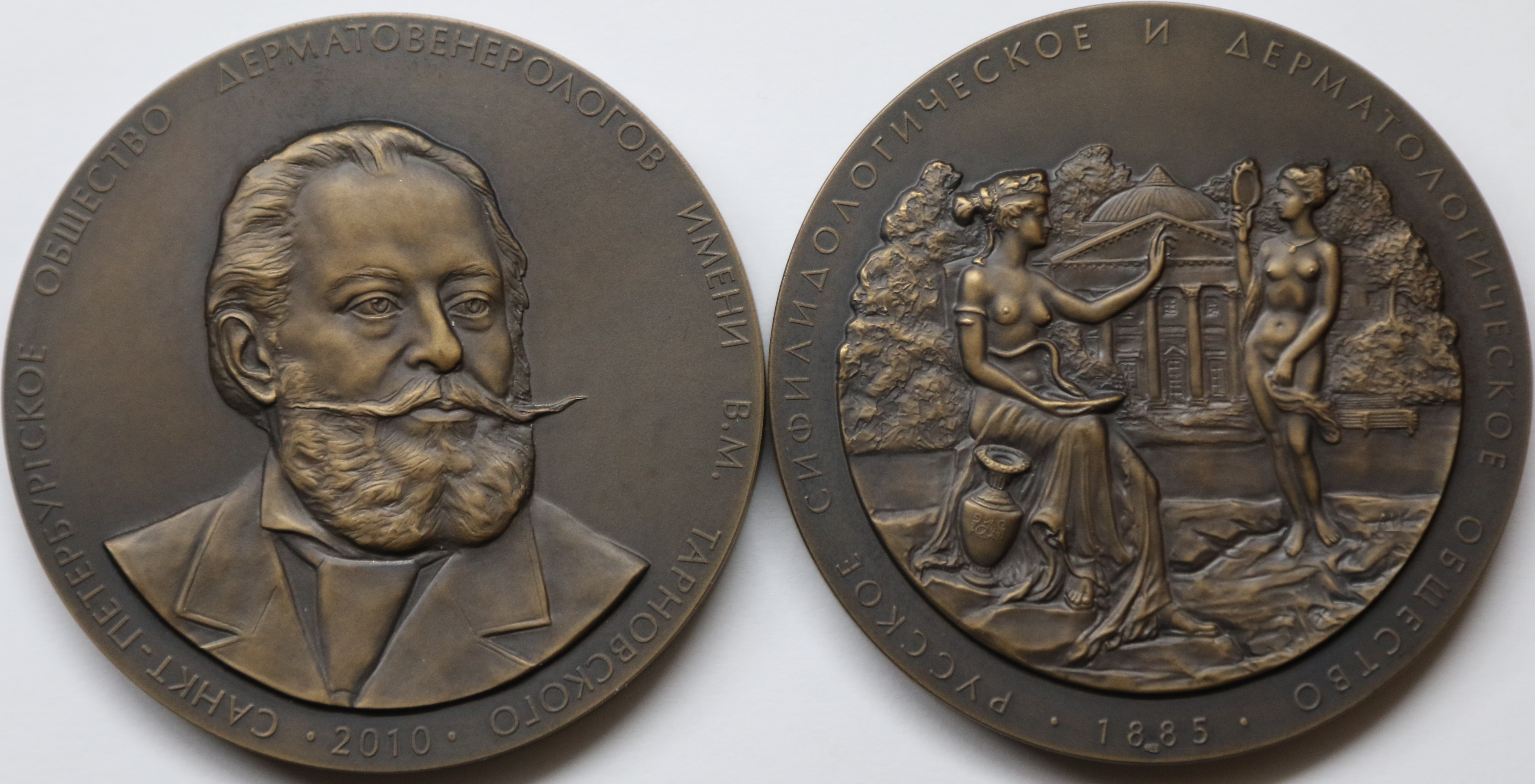 Таrnowsky Benjamin Michailovich award medal RODVK -SPb: sculptor - Shamayev Alexander, designer - professor Zaslavsky Denis